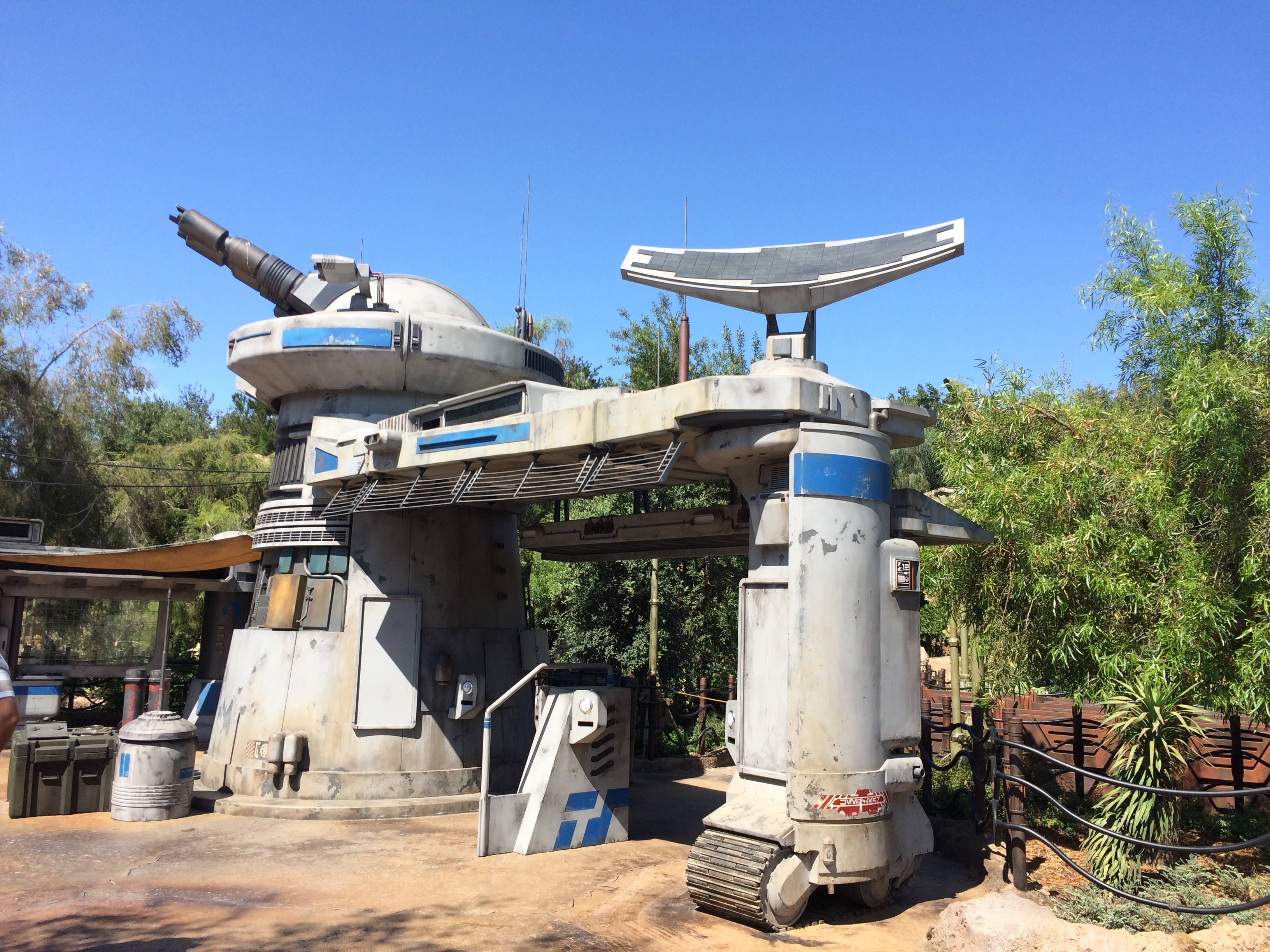 Image taken on 4 August 2019 of the queue entrance to Rise of the Resistance at Galaxy's Edge at the Disneyland Resort in California prior to its opening in January 2020. It is here where guests can check in their fast passes and the standby line queue begins, although it often overflows to the left of the image (not pictured).